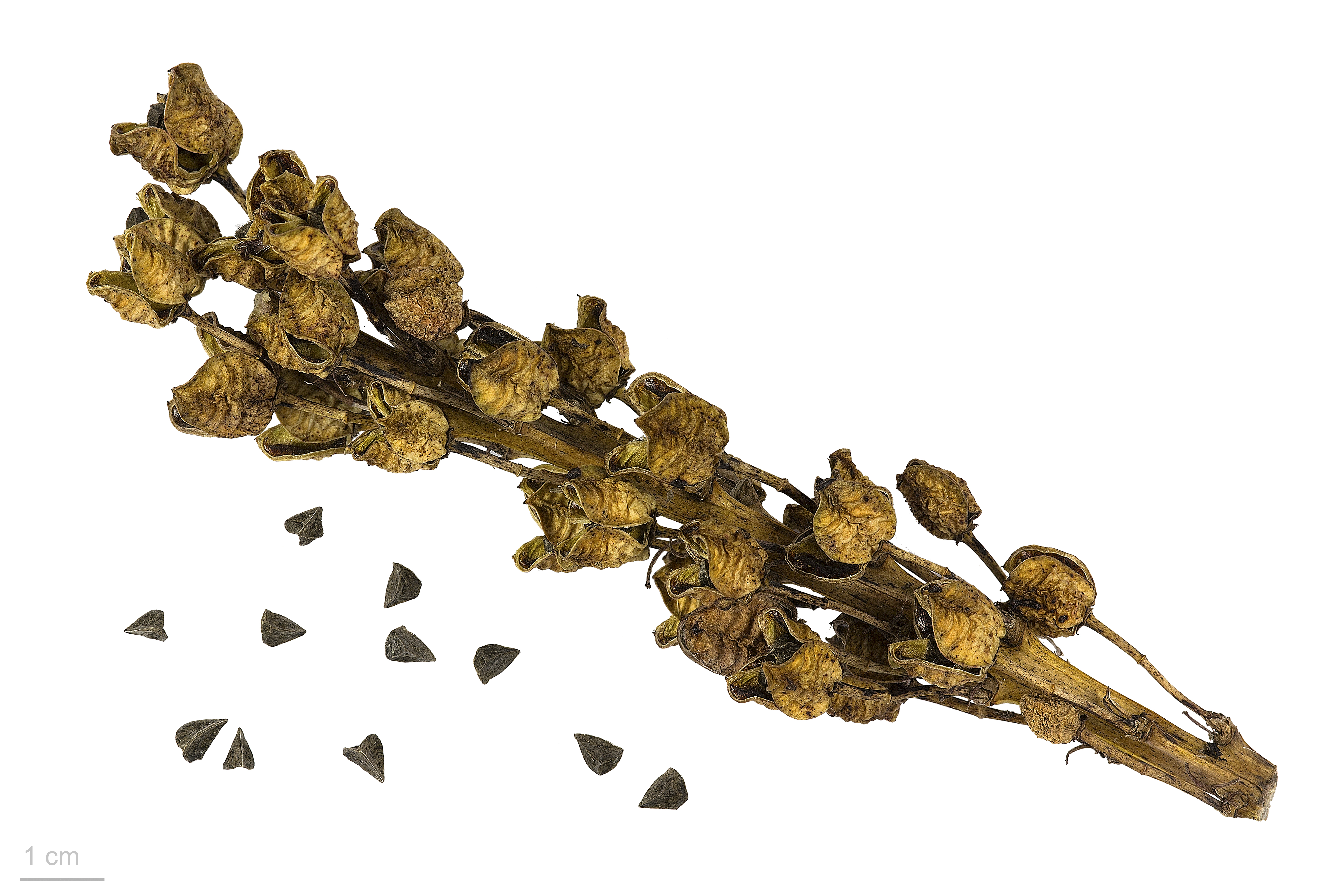 Asphodeline lutea, King's Spear, seeds